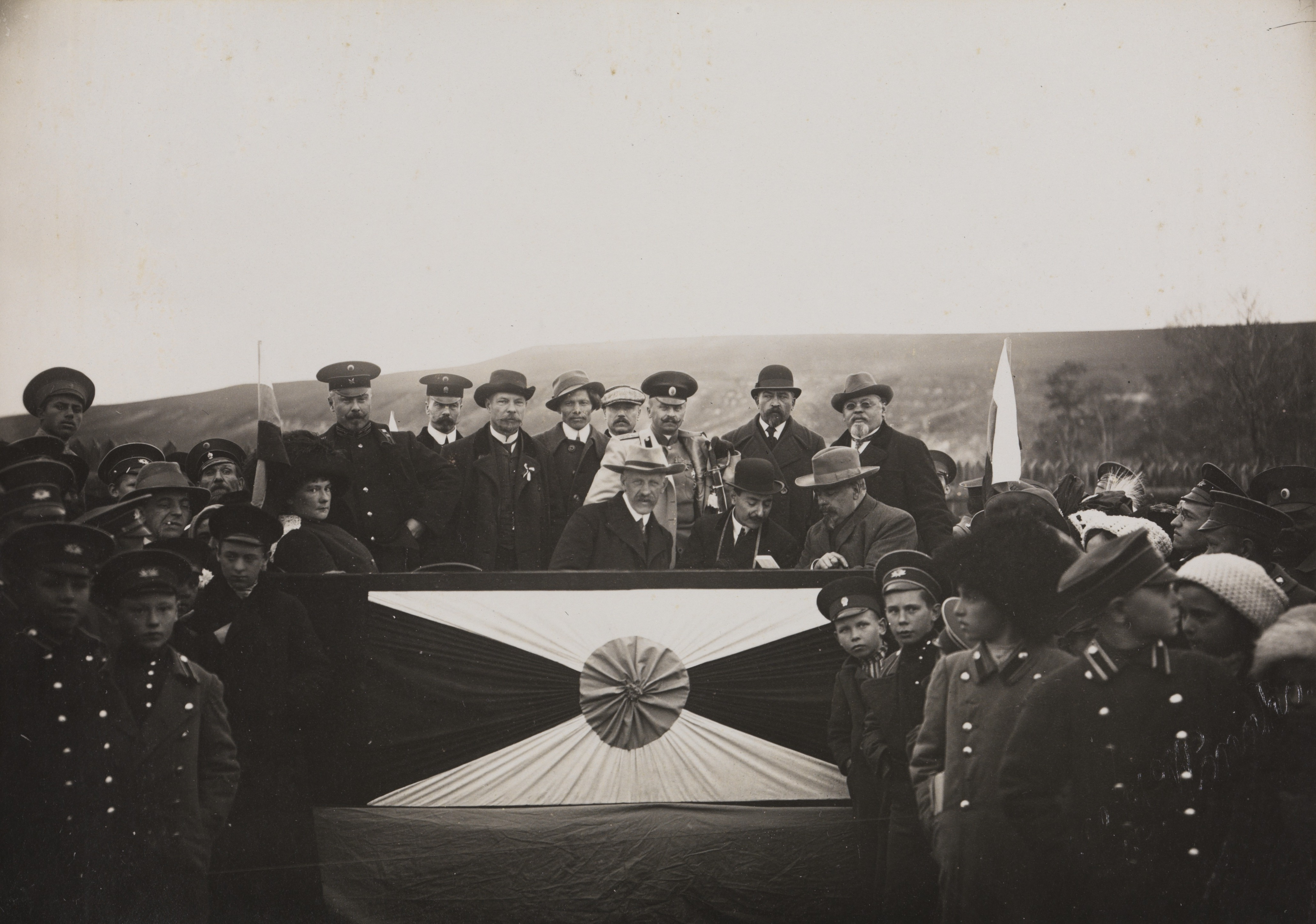 The honorary tribune during a football game, arranged for youth from the schools and the sports clubs in the town. Sitting second from the left, Fridtjof Nansen; third from the left, Josef Gregorievitsj Loris-Melikov, secretary of the Russian Legation (Embassy) in Kristiania; fourth from the left, Stephan Vasilievitsj Vostrotin, owner of a gold mine from Yeniseisk. Both Russians accompanied Fridtjof Nansen from Kristiania to Siberia. One of the pictures from the journey to Siberia between Aug. 2 and Oct. 26, 1913. Fridtjof Nansen continued his trans-Siberian journey by railroad, some of it recently finished, from Krasnoyarsk all the way to Vladivostok.